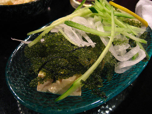 Caulerpa lentillifera, sea weed known as "Ocean Grapes" or "Green Caviar" in Okinawa, Japan.海ぶどう